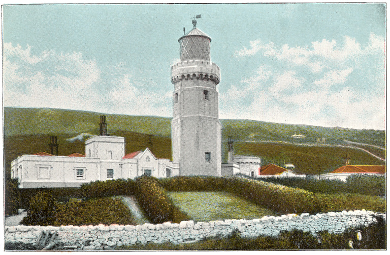 ST. CATHERINE'S LIGHTHOUSE.—Formerly the Lighthouse stood upon the Downs, but the prevalence of sea mists during certain portions of the year which obscured the light, at last led to the erection of the present building near the margin of the sea. It is one of the most powerful lights in the world, sending its rays far out over the sea and land as it revolves. When the sea mists arise it has a powerful foghorn which can be heard for many miles. Close by is the reef at Rockenend, on which many a gallant ship has been broken up.